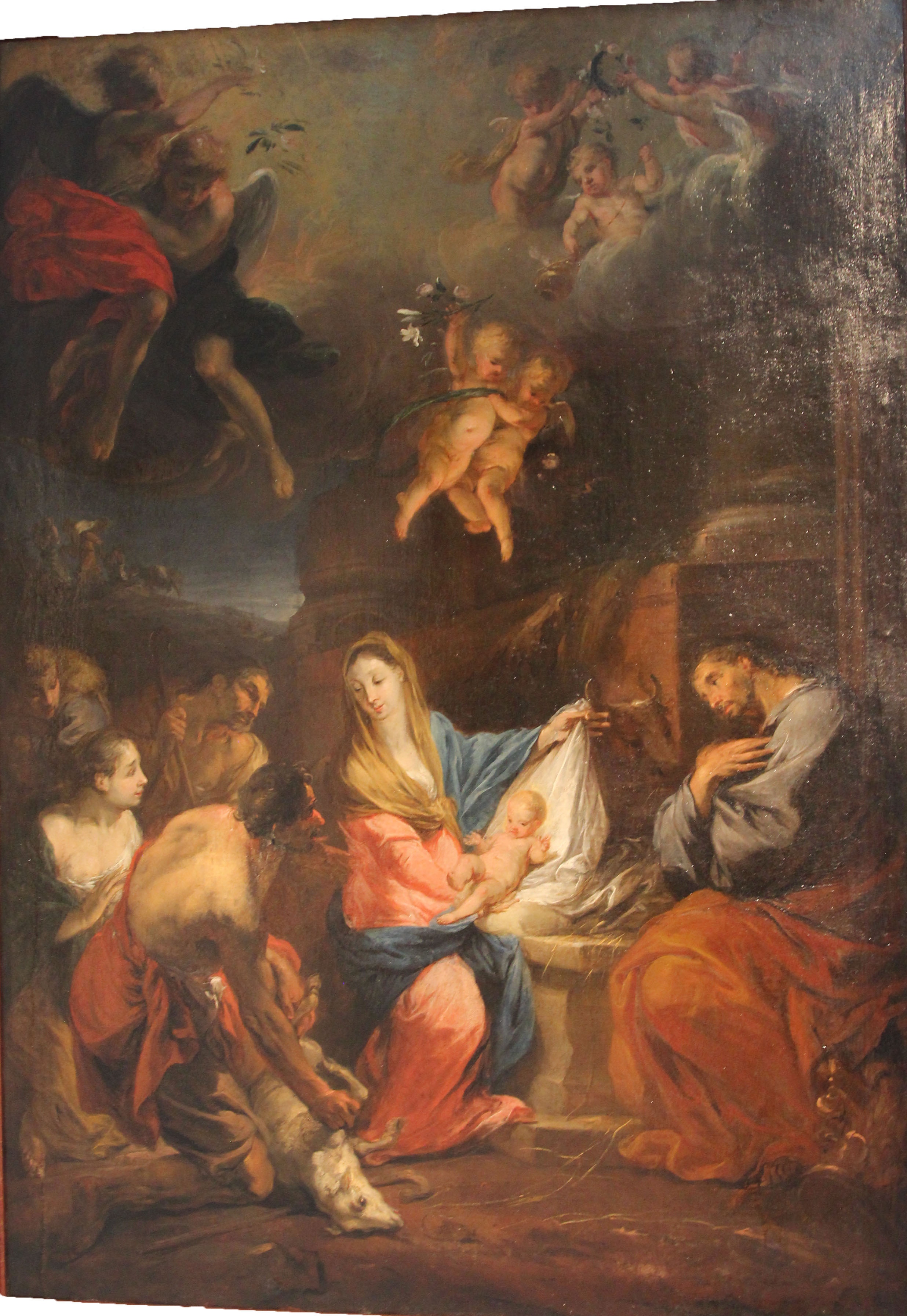 Michael Willman The Adoration of Shepherds (ca 1682) from National Museum in Wroclaw (originally in Cistercian monastic church Lubiąż Abbey - altarpiece in the chancel's ambulatory).